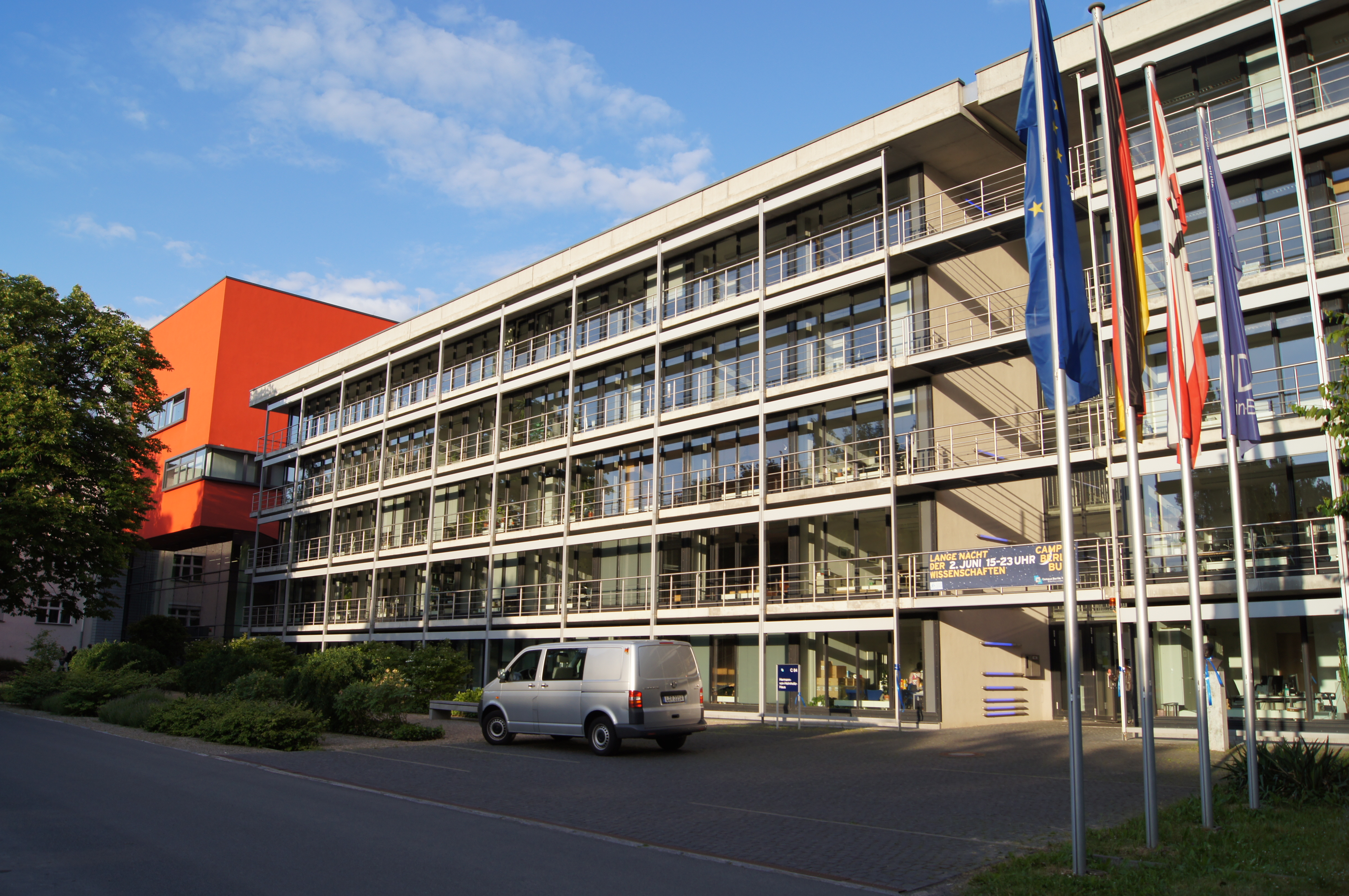 Campus Berlin-Buch, Germany. Long Night of Sciences 2012. Building of the Max Delbrück Centre for Molecular Medicine